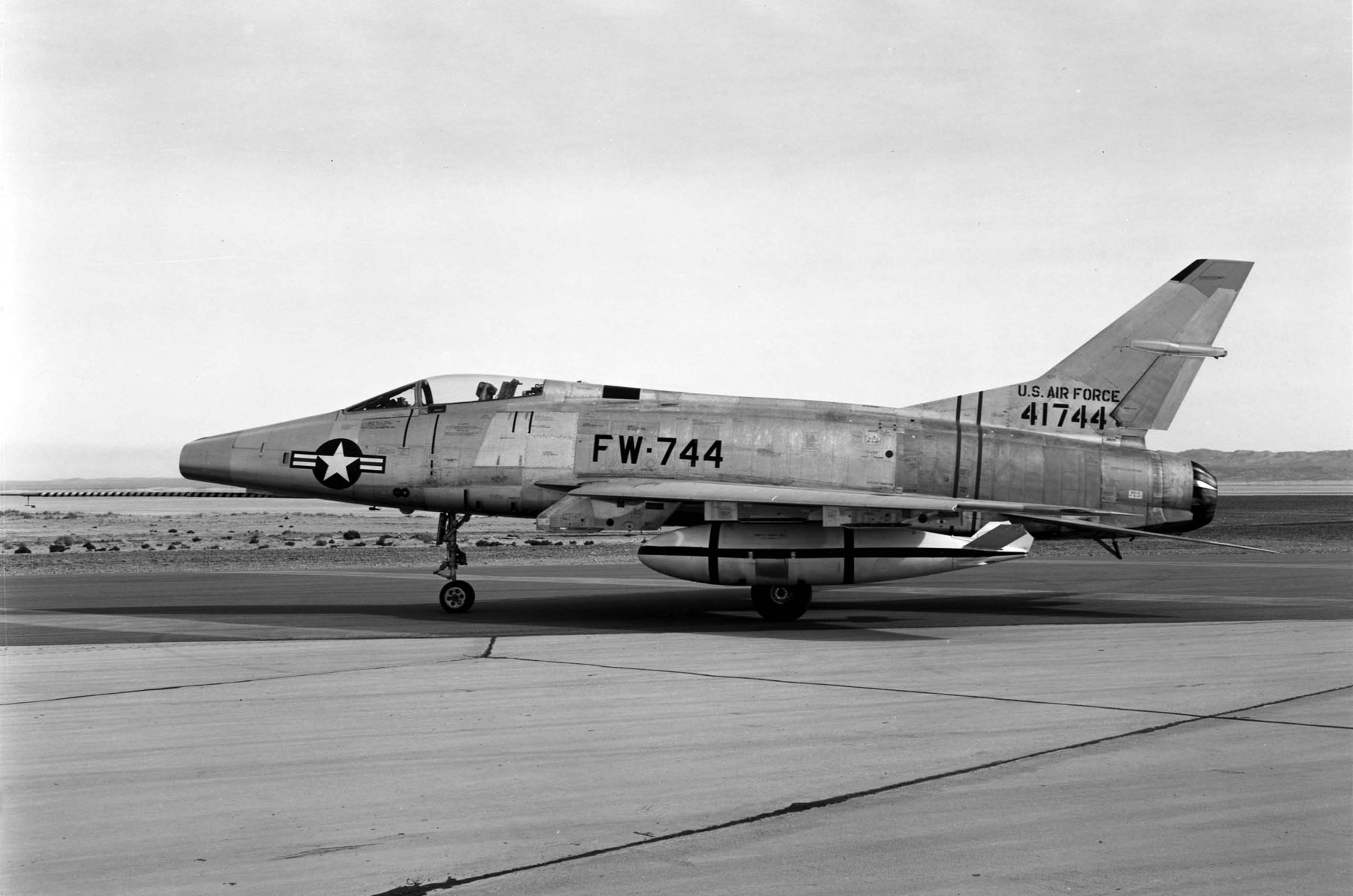 North American F-100C (SN 54-1744).